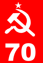 The Emblem for the 1987 October Revolution Parade